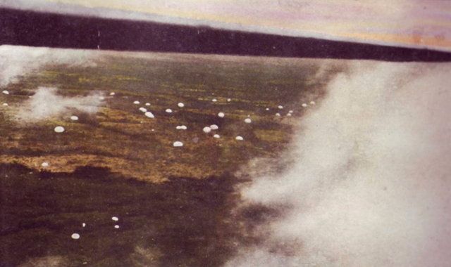 Imperial Japanese Army paratrooper are jumping out of their planes over Palembang airfield, February 13, 1942.